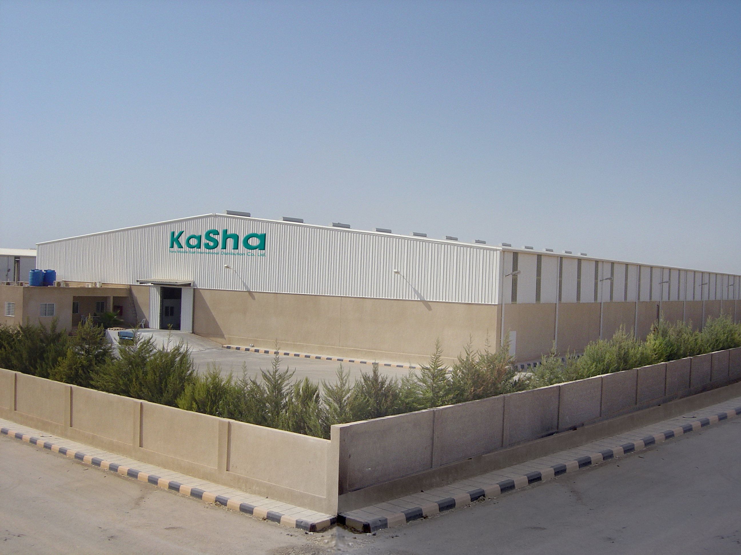 Trans Middle East International Distribution Company Ltd. - KaSha Warehouse from outside.